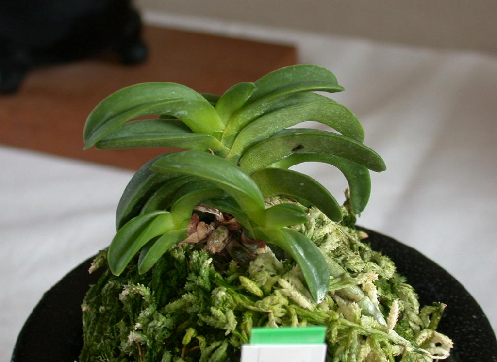 Name Neofinetia falcata （富貴蘭；青海） Family Orchidaceae Date;2006,10;Tanabe city, Wakayama prefecture, Japan Author;Keisotyo